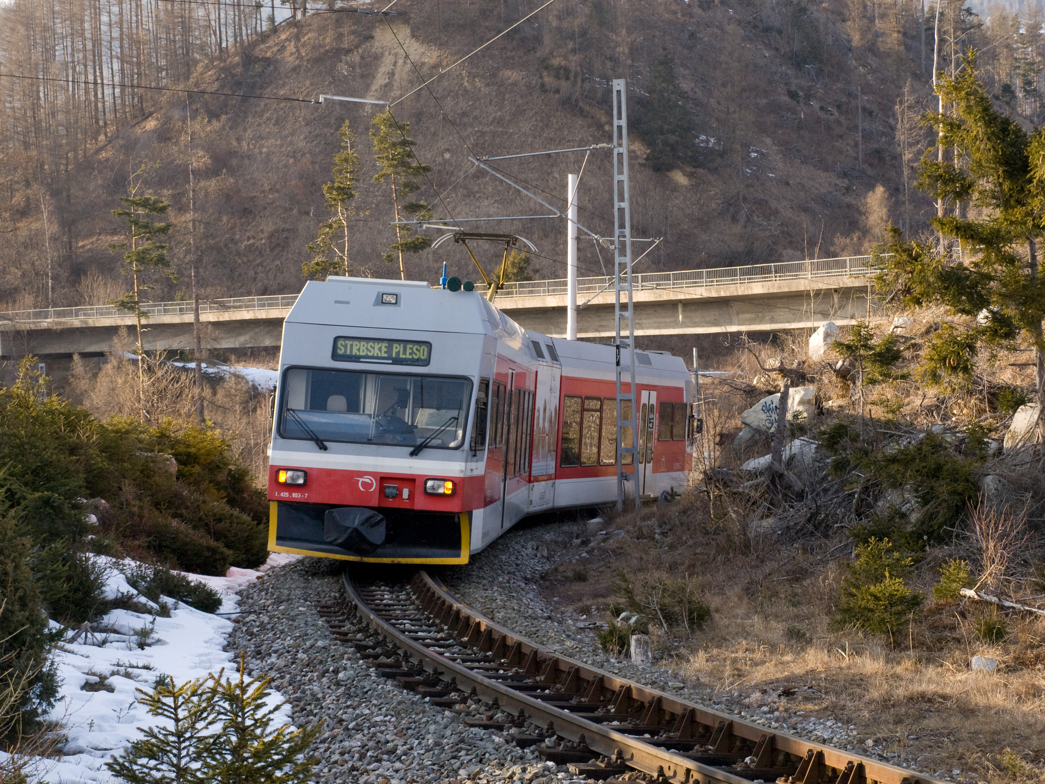 EMU Class 425.95 od Tatra Electric Railways near Tatranská Polianka